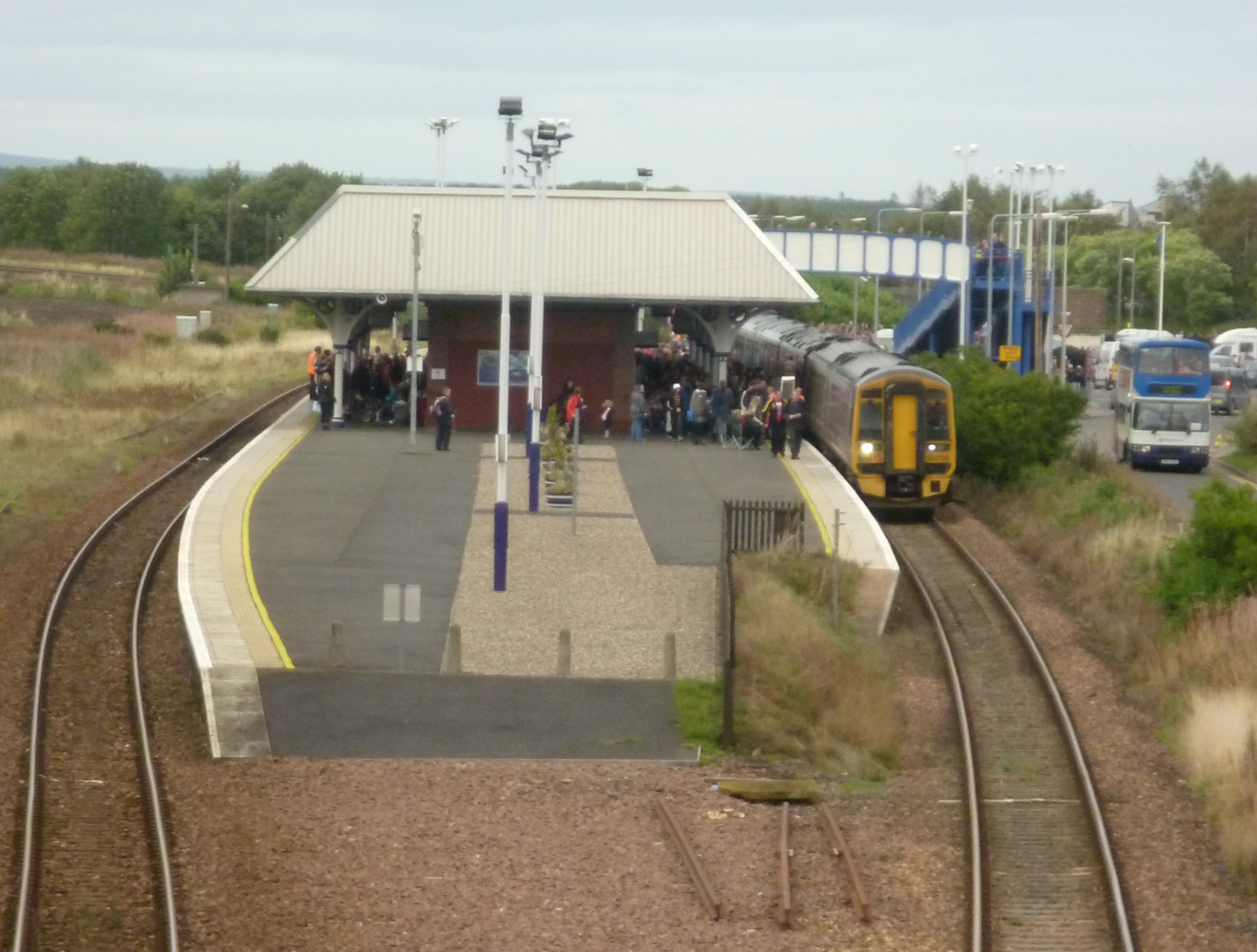 Leuchars Station, Fife